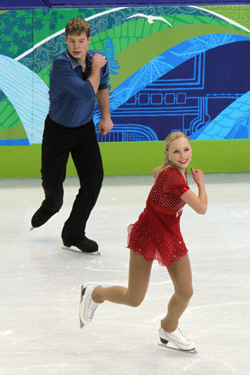 Maria Sergejeva and Ilja Glebov at the 2010 Winter Olympics.